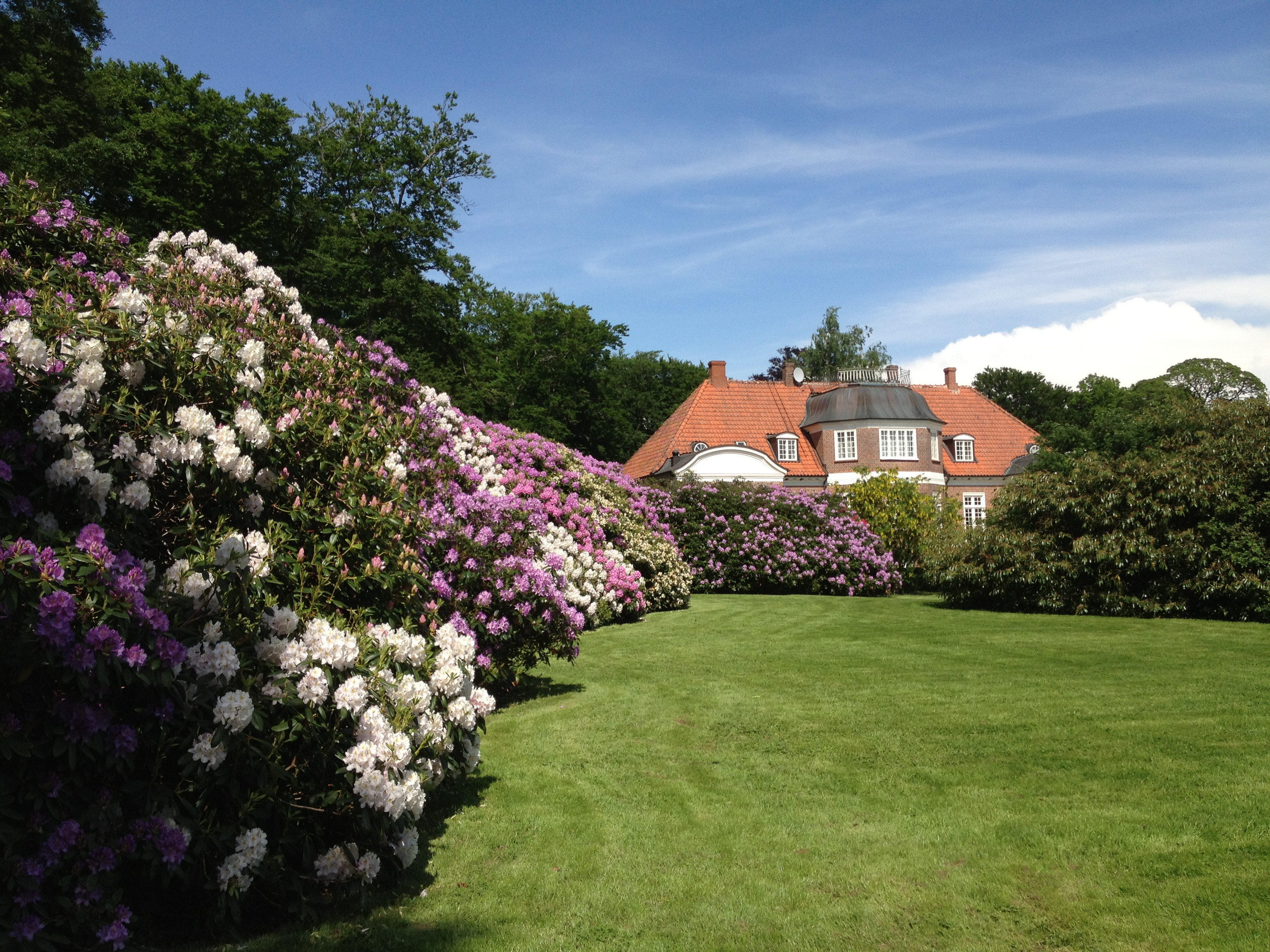 Balderup House, Sweden